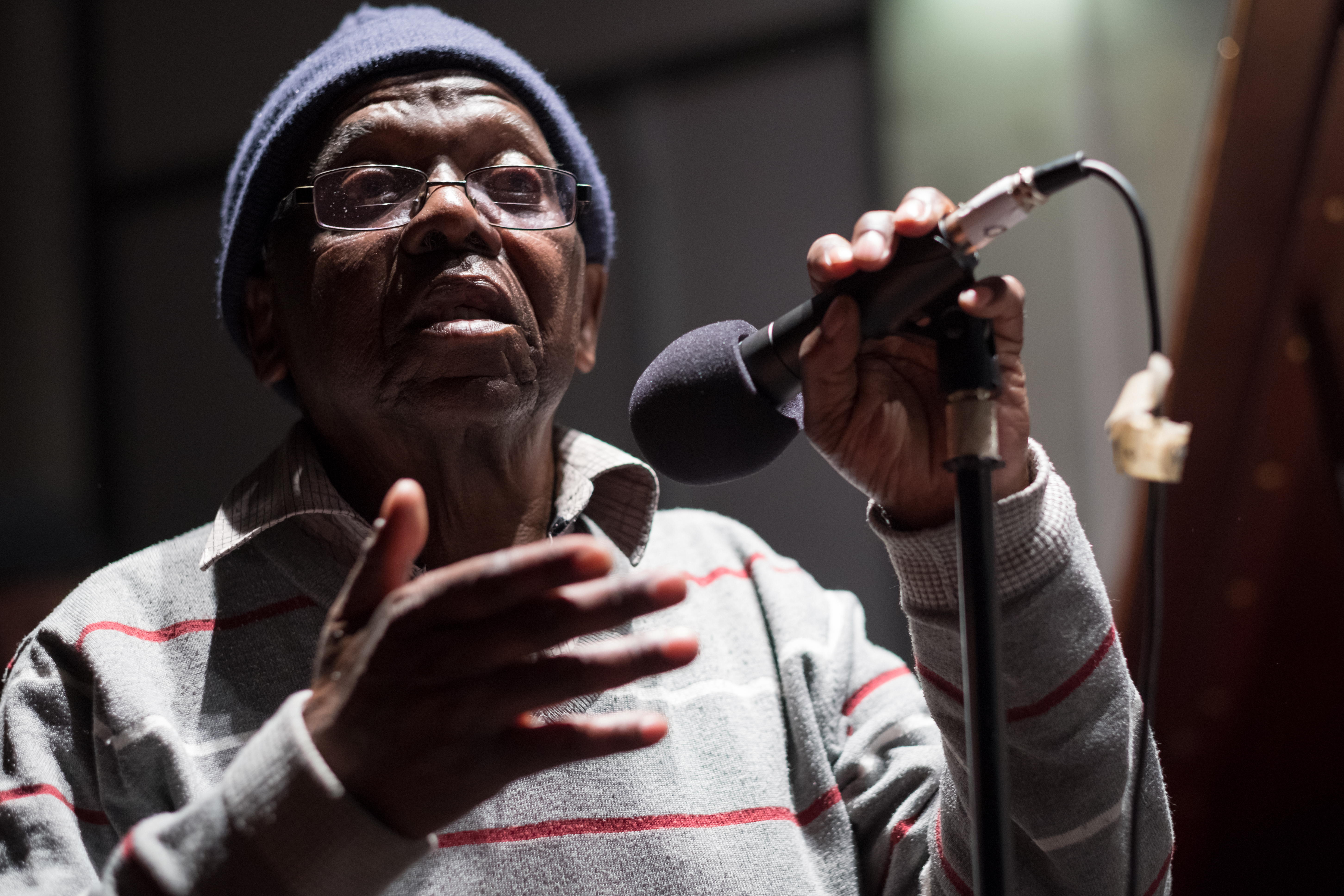 Tete Mbambisa, speaking between performances of a programme of original compositions arranged for his 'SA-UK Big Sound’ band, during the 2017 tour to launch his latest album ‘One for Asa,’ recorded in the UK in 2015. The band comprises of saxophonist Bra Barney Rachabane (Hugh Masekela and Paul Simon) and drummer Ayanda Sikade (Zim Ngqawana and Thandiswa Mazwai), Julian Arguelles (tenor), Chris Batchelor (trumpet) and Steve Watts (bass).